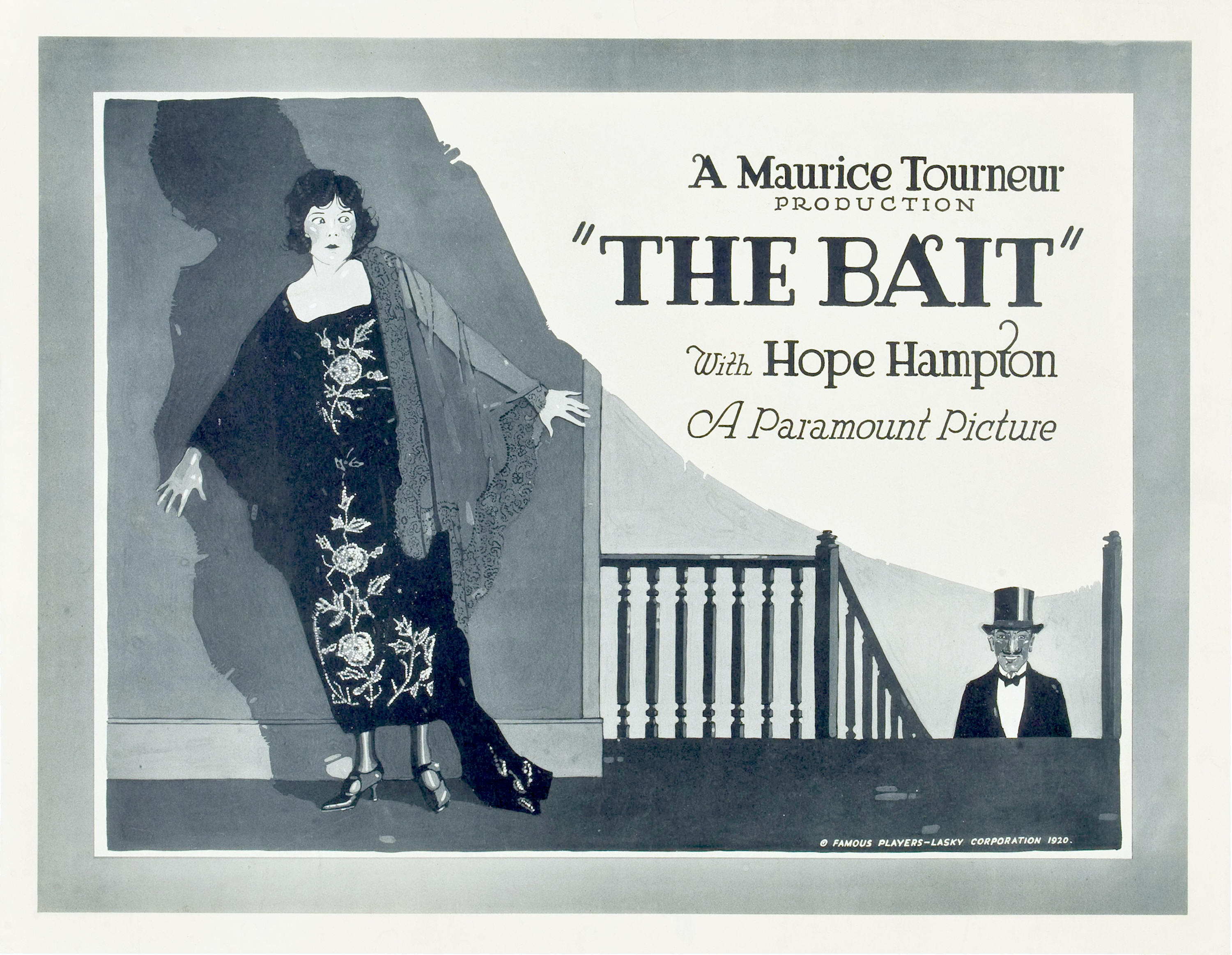 The Bait was a 1921 American silent crime drama film produced by and starring Hope Hampton, directed by Maurice Tourneur and distributed by Paramount Pictures. This is a contemporary lobby card for the film.